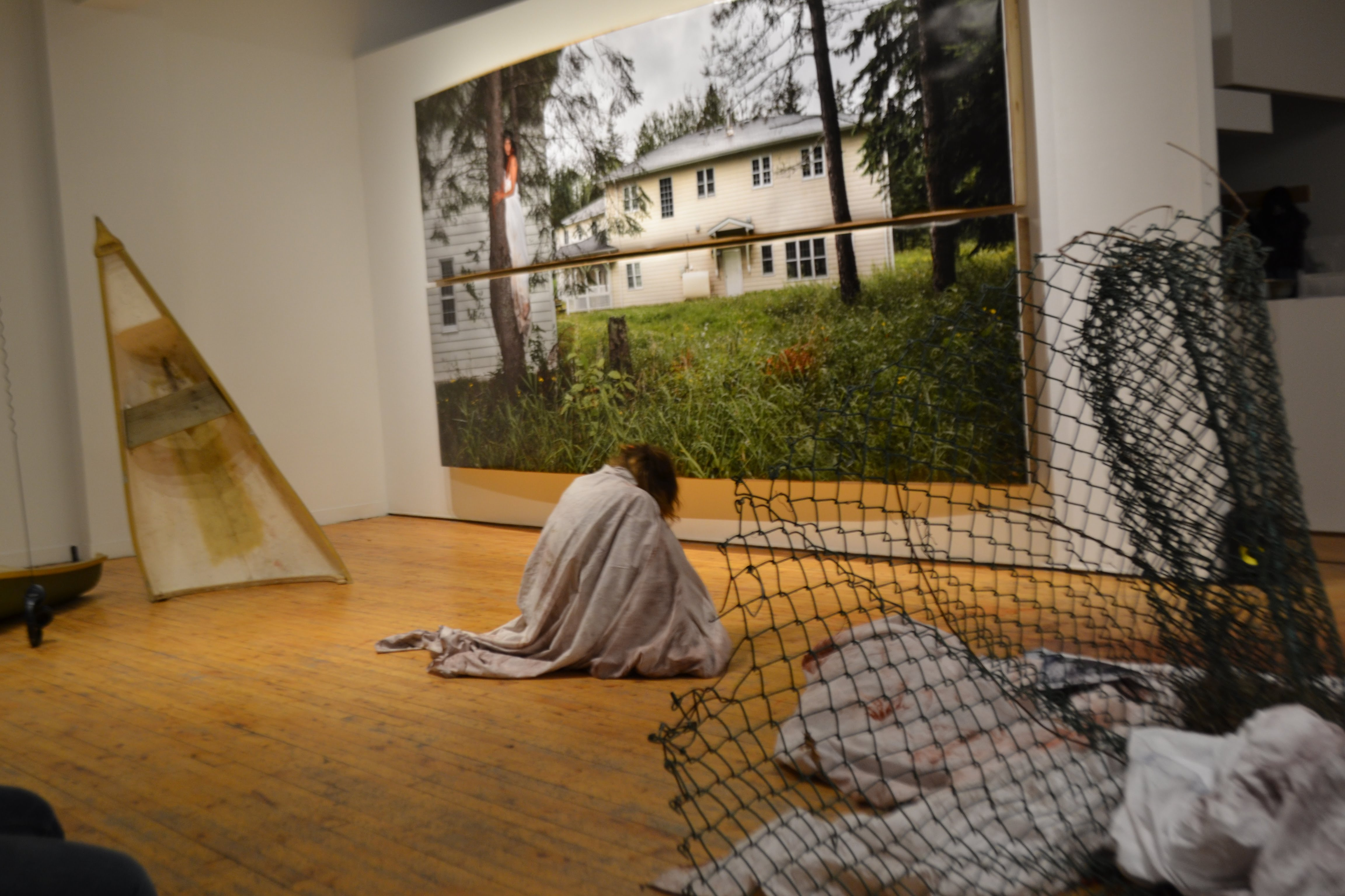 The photo shows a woman covered in a dirtied white sheet. To her right is half of a canoe and to her left a rolled up snow fence. Behind her is a large photo of Pelican Lake Residential School.